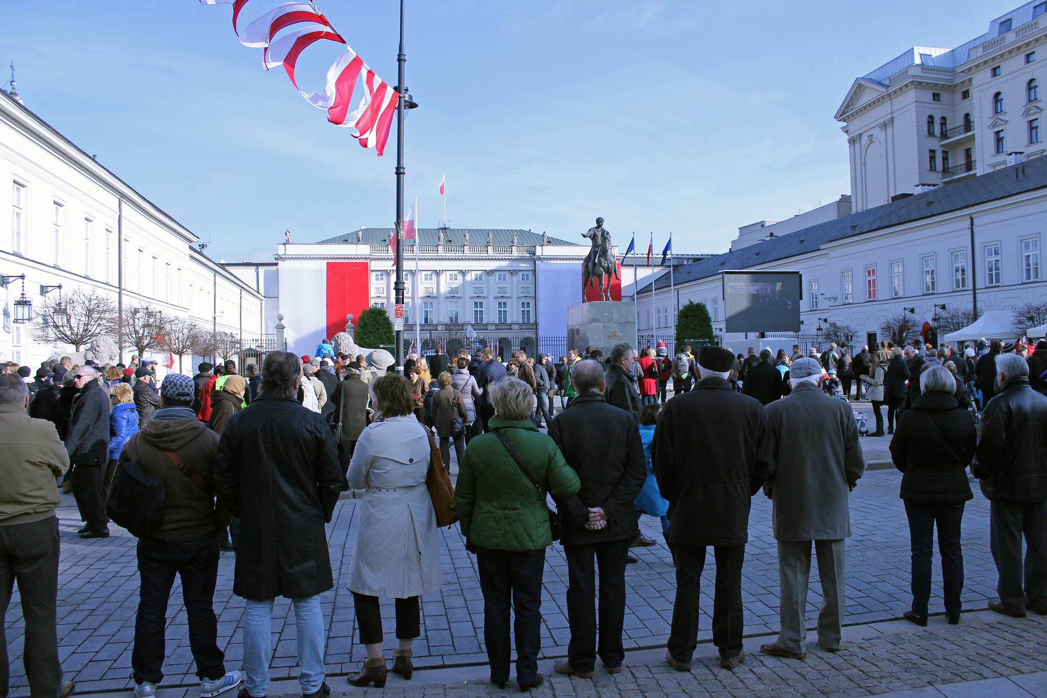 Wer dieses Bild benutzen möchte, der möge bitte den Link auf seiner Seite einbinden. If you want to use this picture, please implement the link on the website containing the picture.